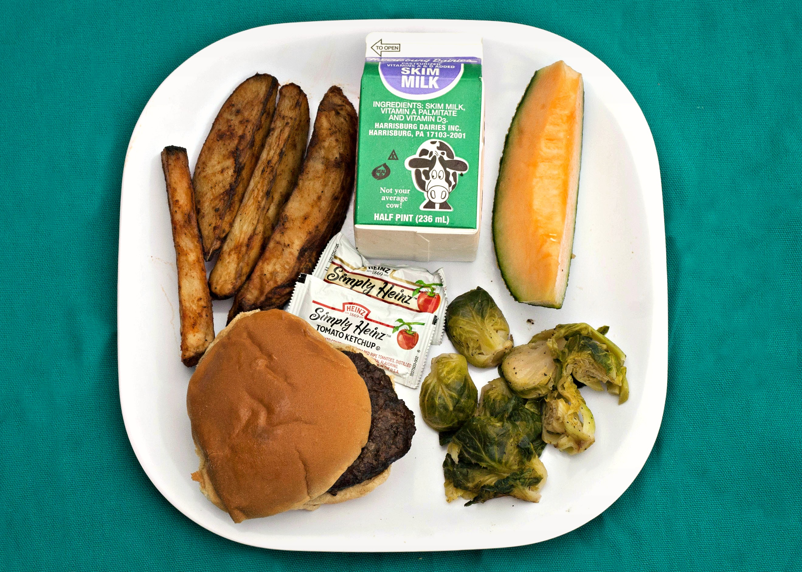 Lunch at DC Public Schools on 10/9/12: Local Beef Burger on a Whole Wheat Bun, Roasted Brussel Sprouts, Baked Potato Fries, Cantaloupe Wedge & Milk